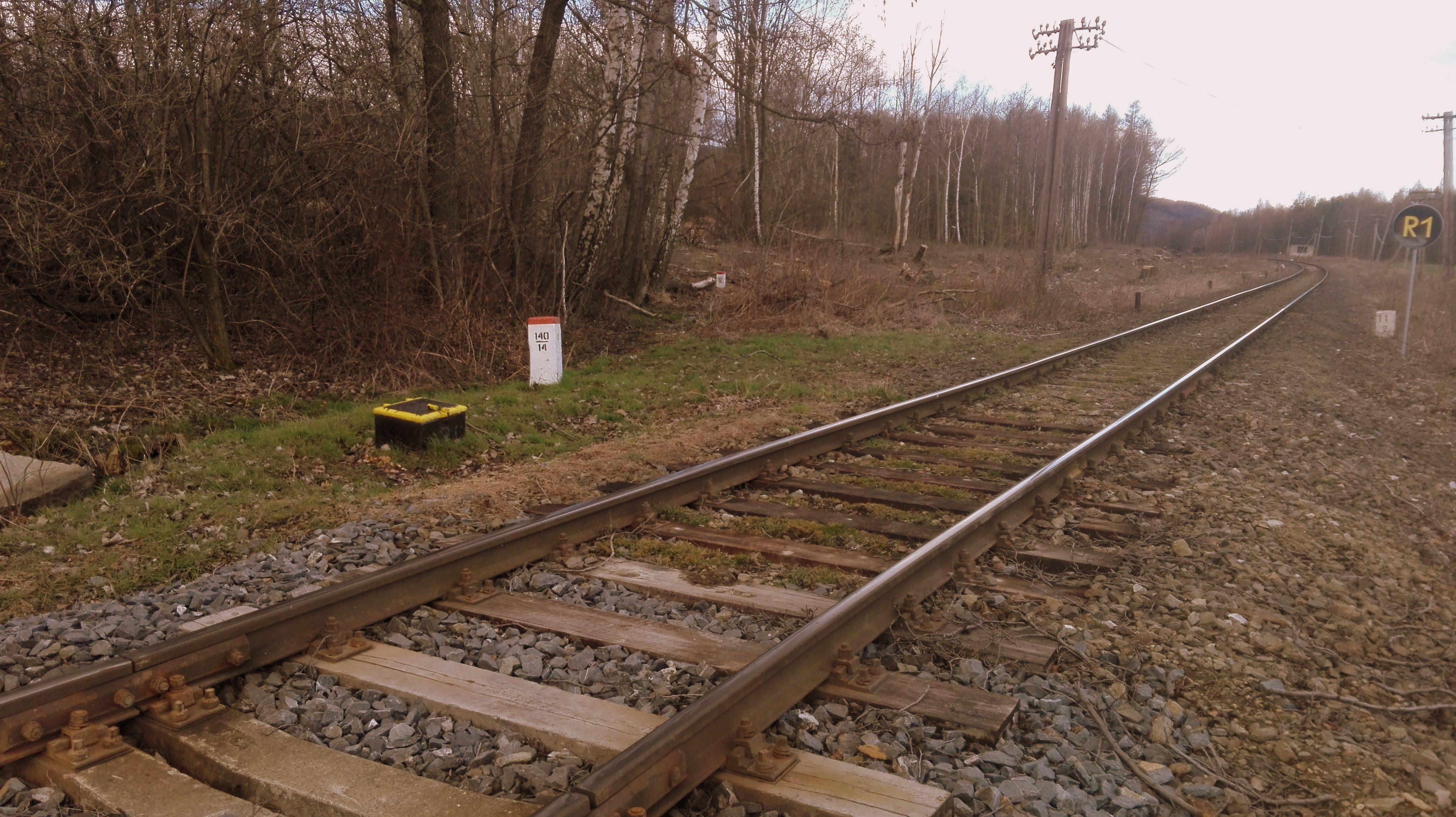 Głuchołazy-Jindřichov ve Slezsku border crossing